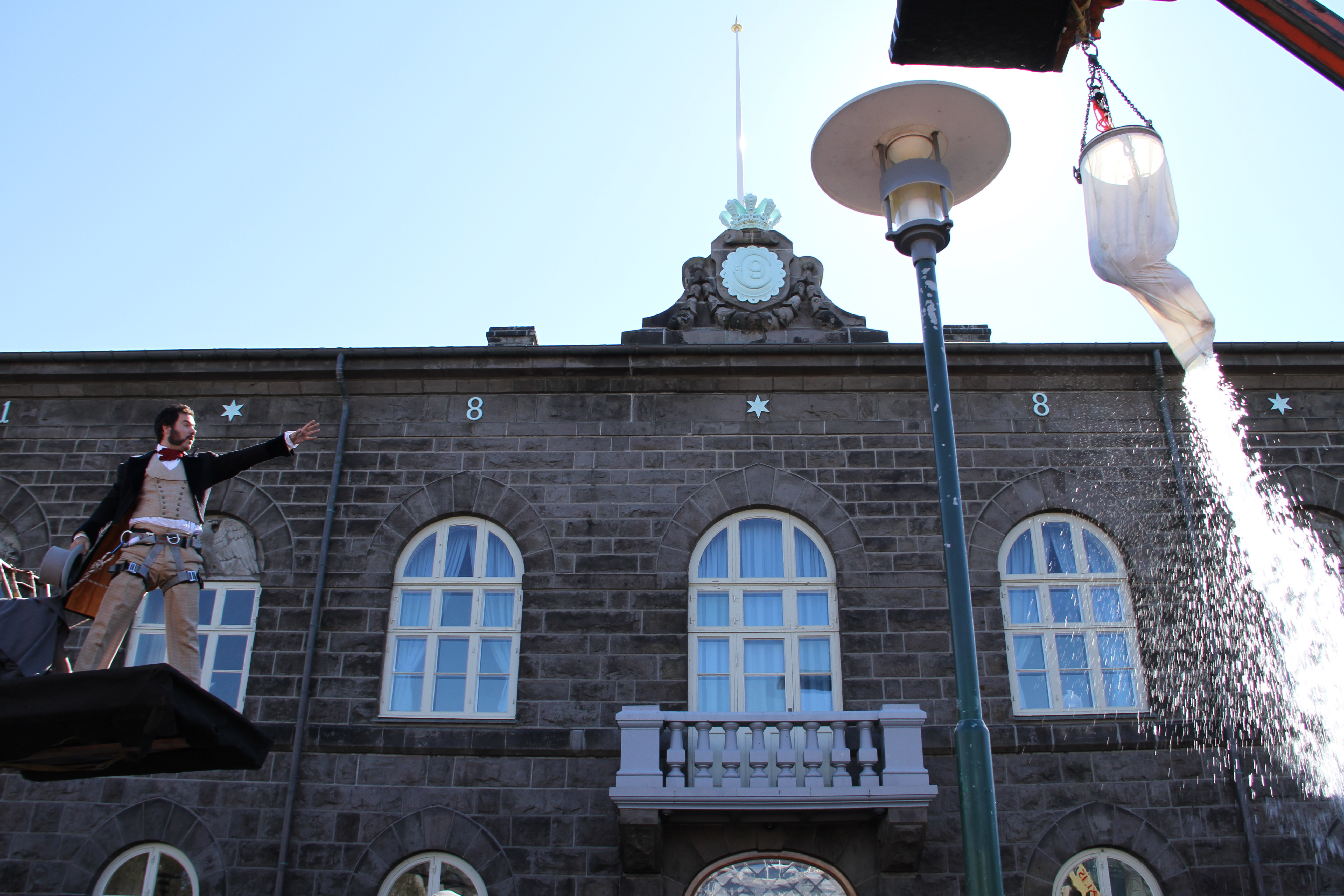 Performance